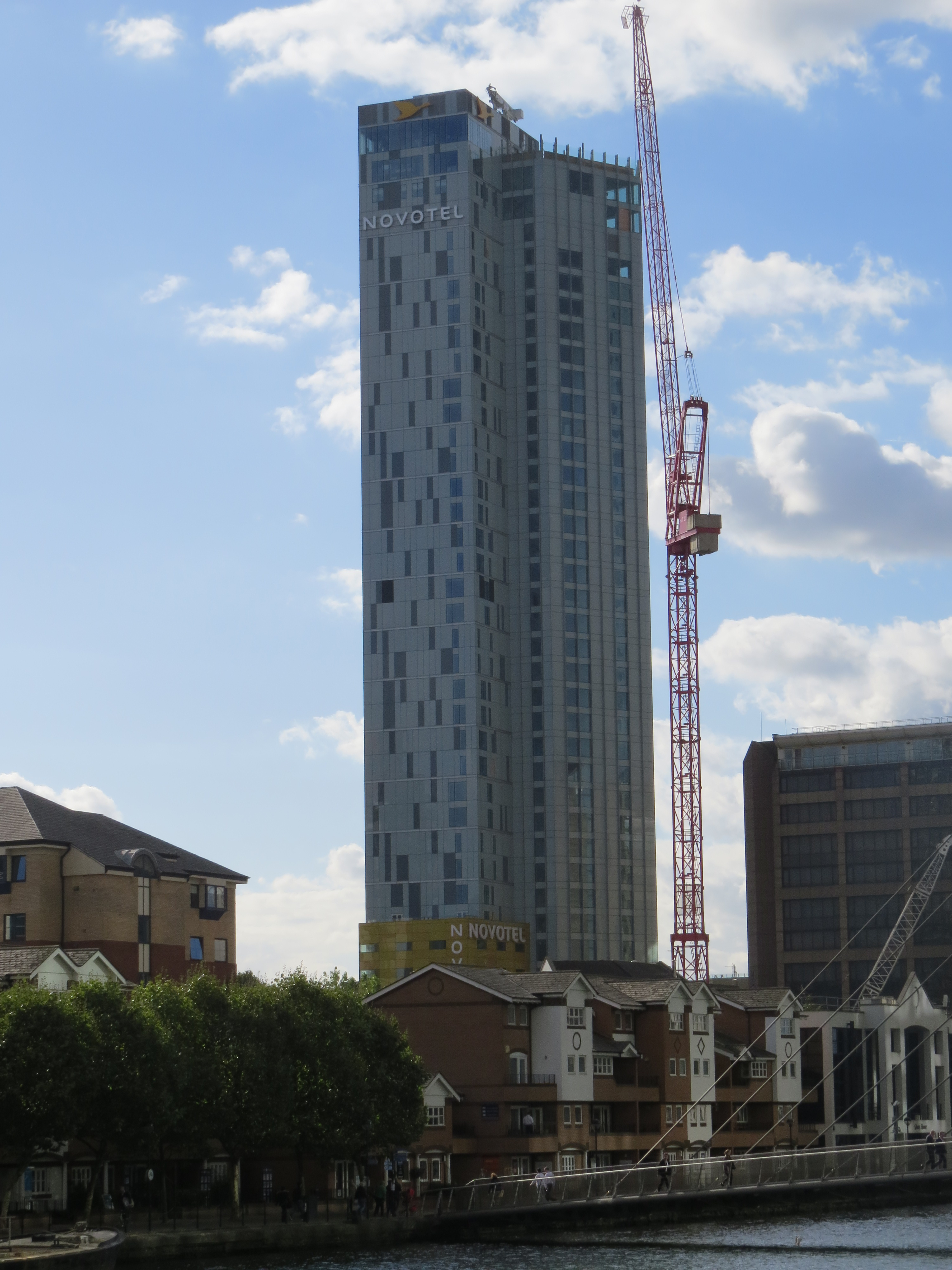 Photo